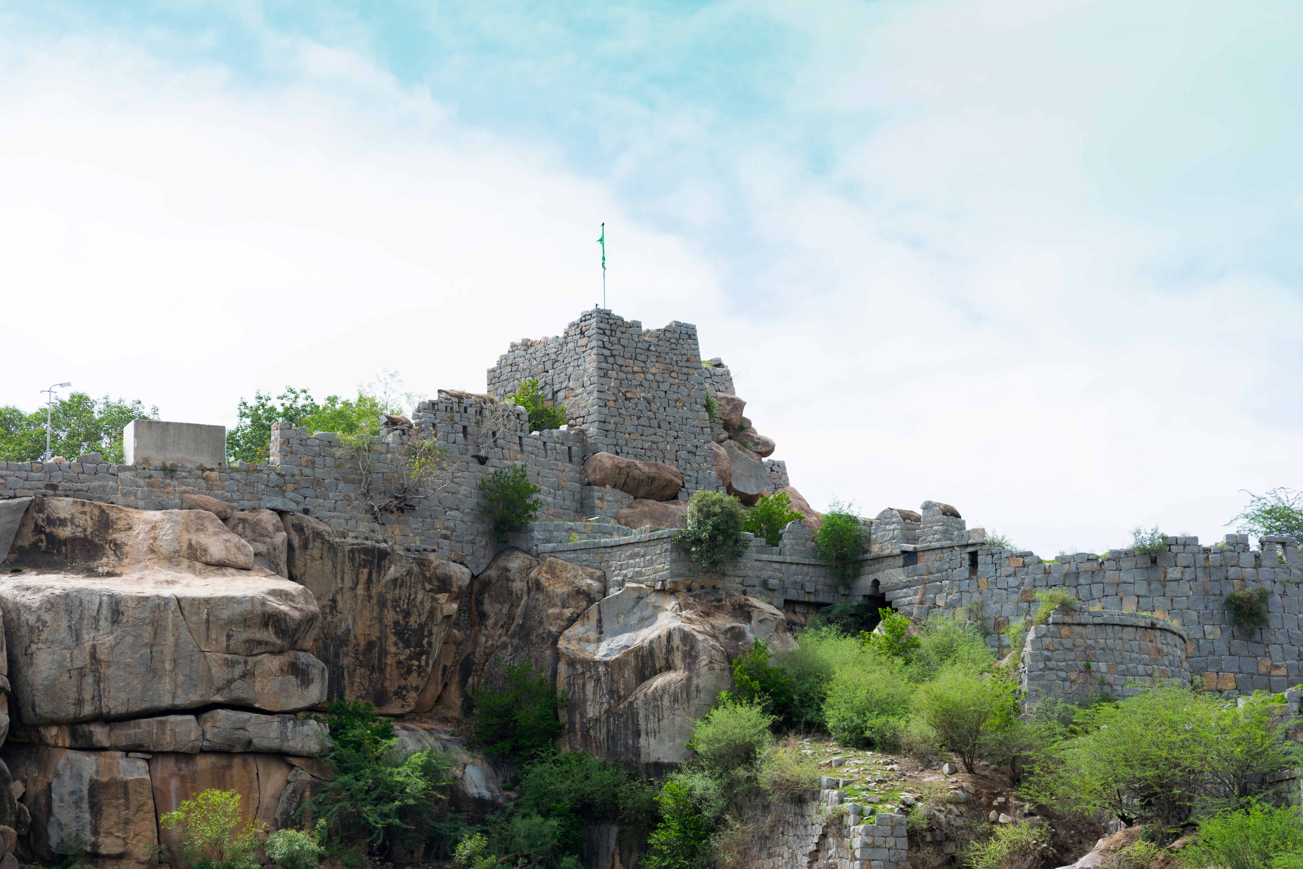 Image of Raichur fort photographed by Madhu BM